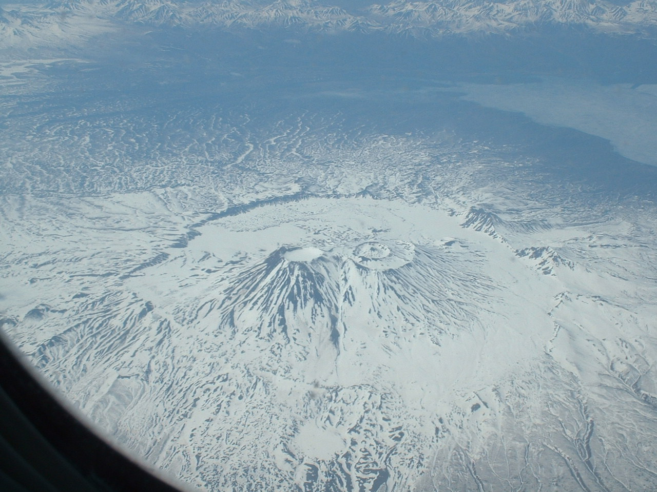 Krasheninnikov Volcano (Kamchatka), seen from the the air.